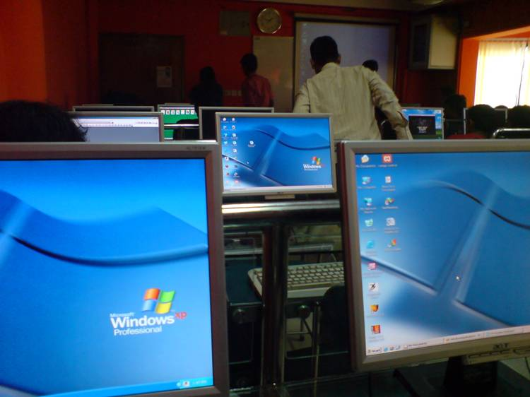 AIUB Computer Lab